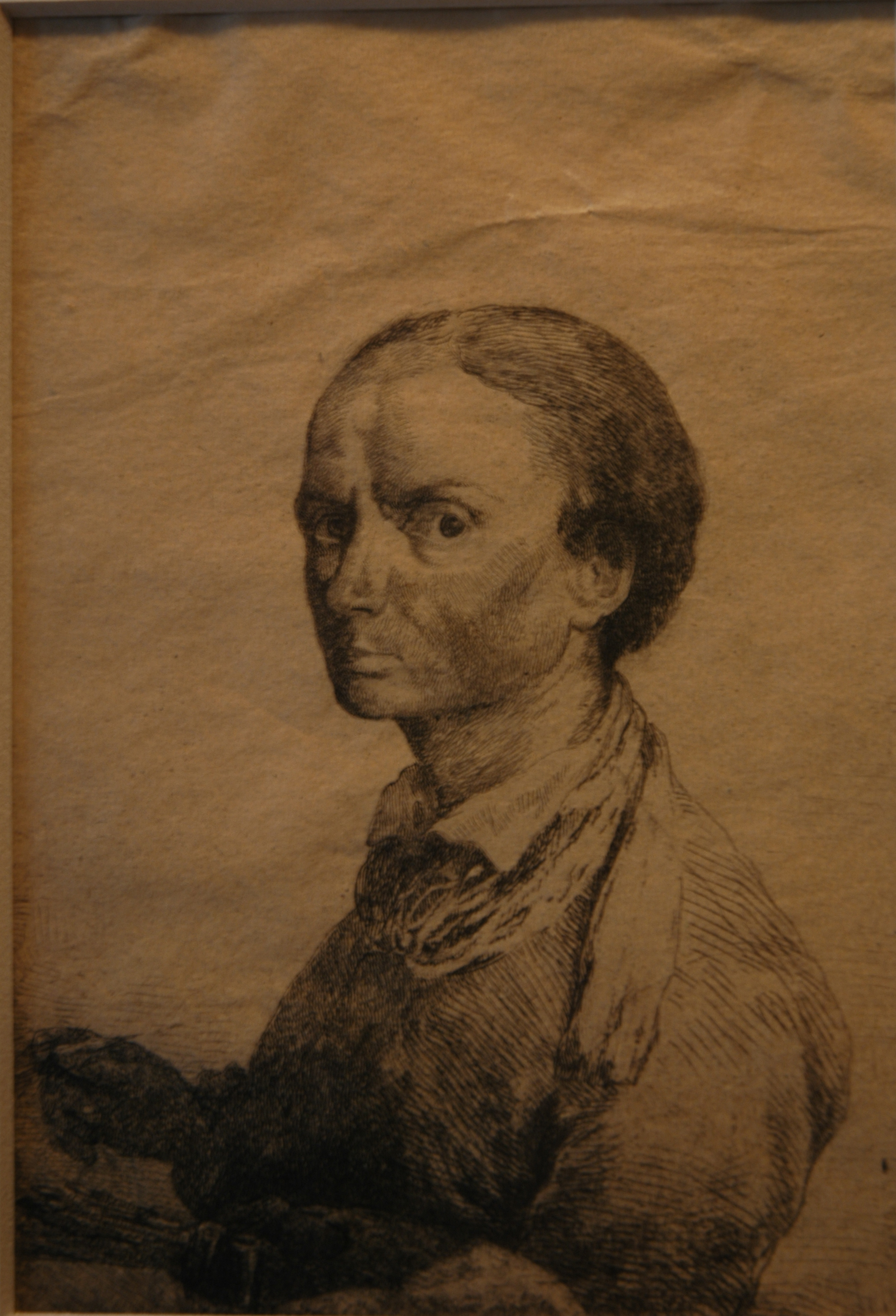 Jan Piotr Norblin - self portrait as a painter Etching 15,6x10,6